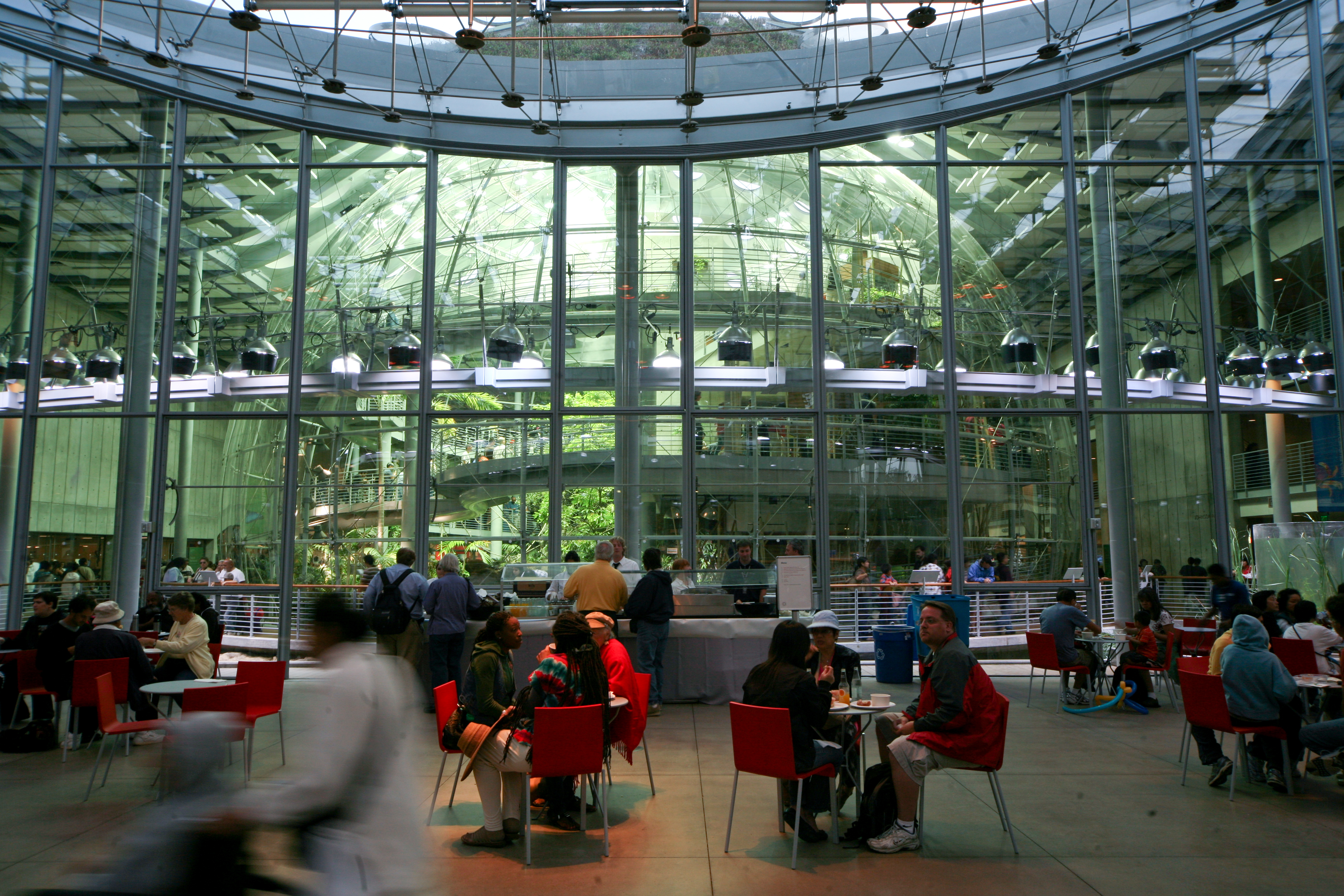 California Academy of Sciences Cafeteria, with the Indoor Rainforest in the background